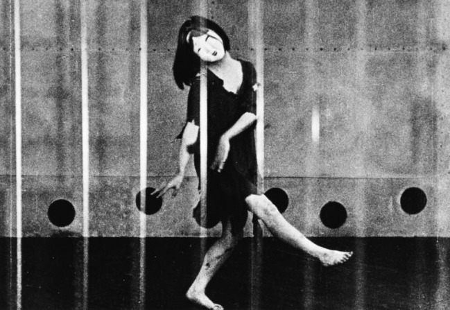 Eiko Minami in A Page of Madness